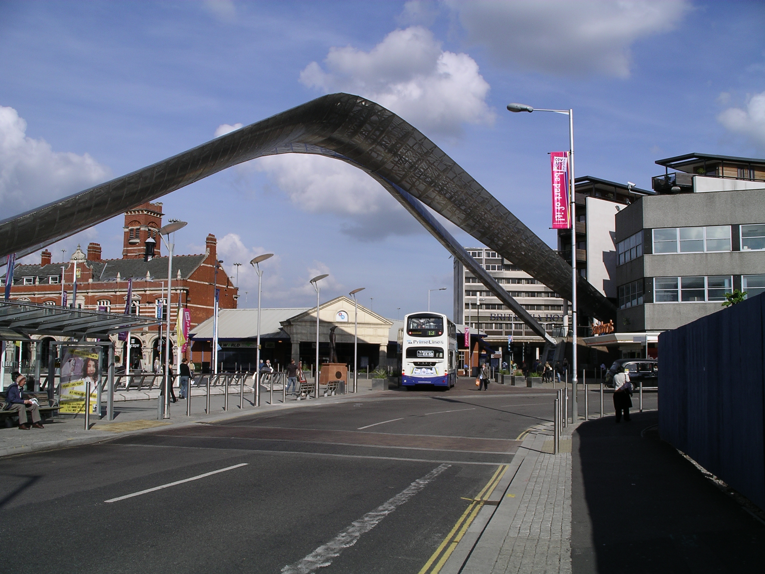 photo of a bus leaving the Pool Meadow Bus Station in Coventry, England. The Whittle Arches are show.